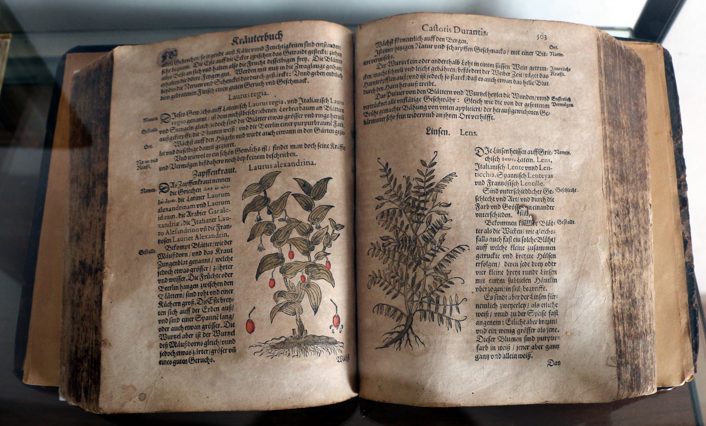 Museo Civico (Gualdo Tadino)